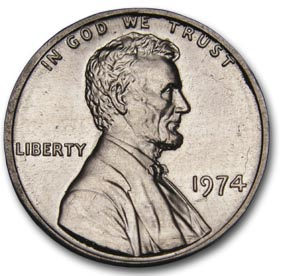 Obverse of the 1974 Aluminum cent.